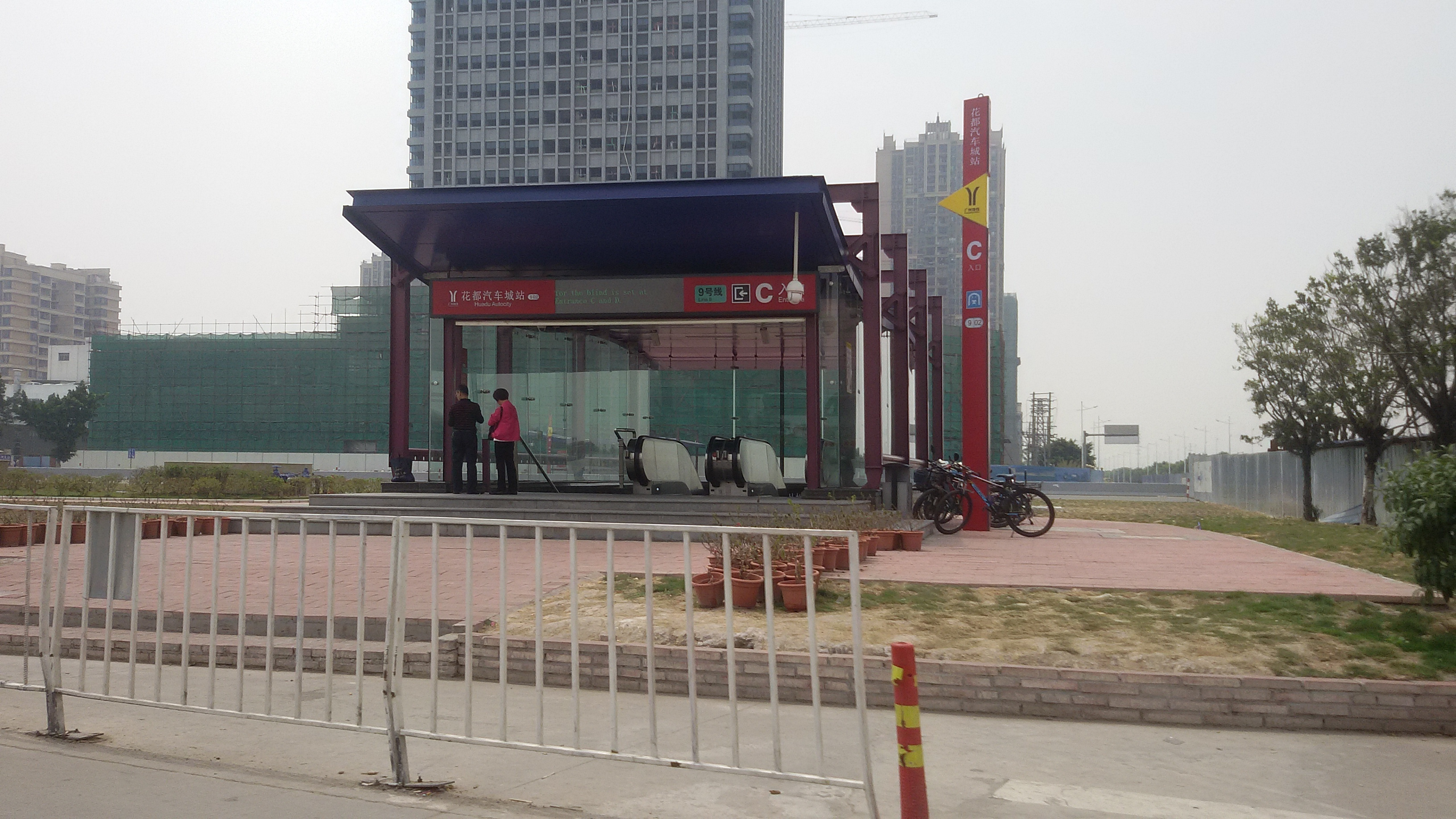 Exit C for Huadu Autocity Station in Guangzhou Metro.